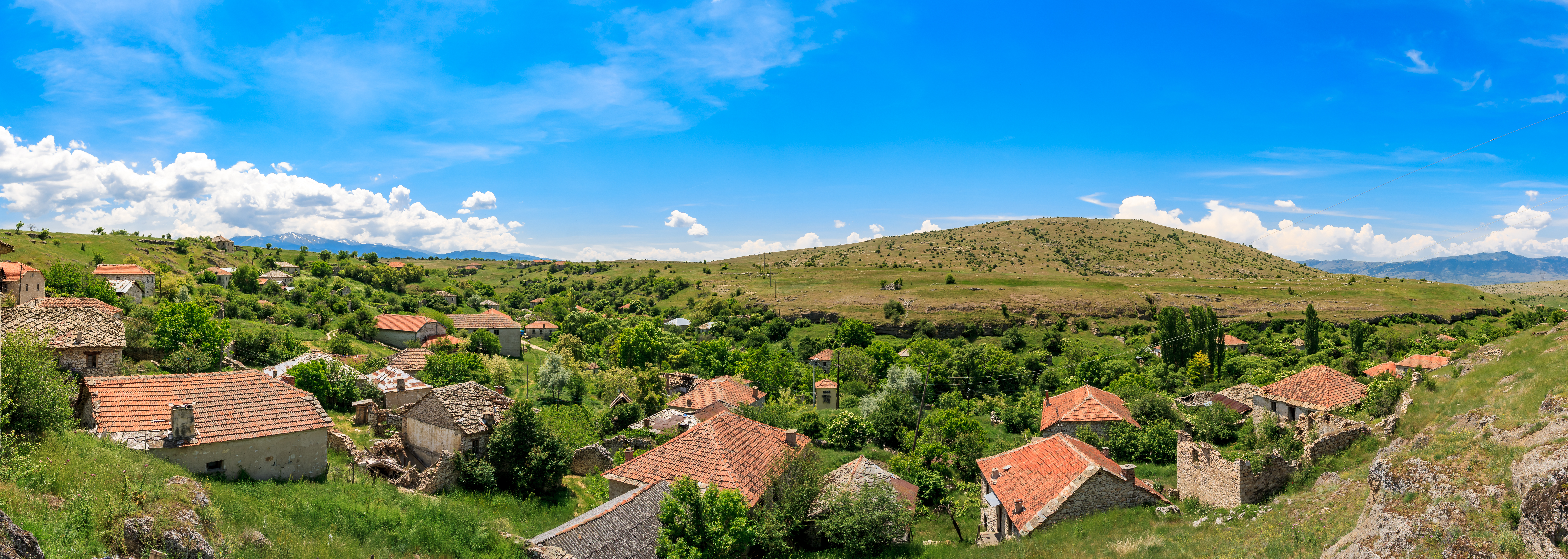 Panoramic view of the village Bešište, Mariovo